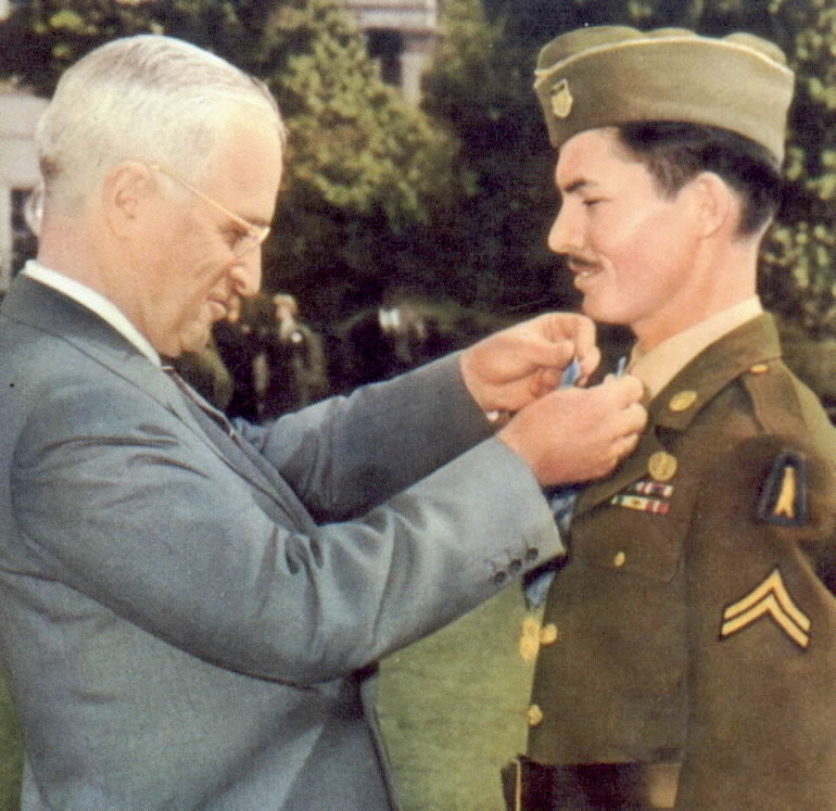 President Harry Truman awarding the Medal of Honor to conscientious objector Desmond Doss